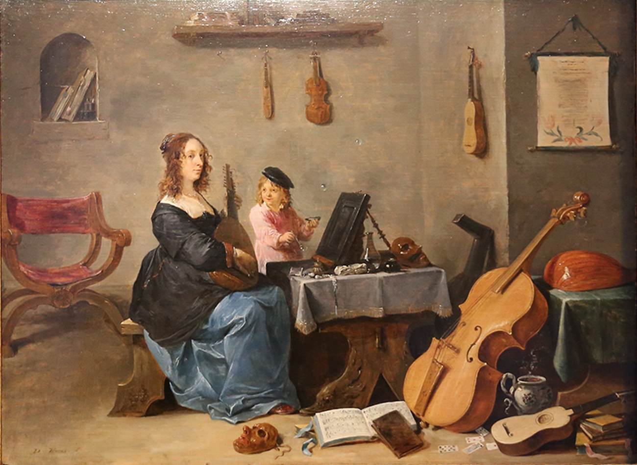 Portrait of Anna Brueghel and her son David Teniers III Oil on panel, 32 x 42 cm Galleria Sabauda, Turin